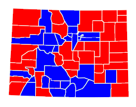 County results map of Colorado senate election, 2004